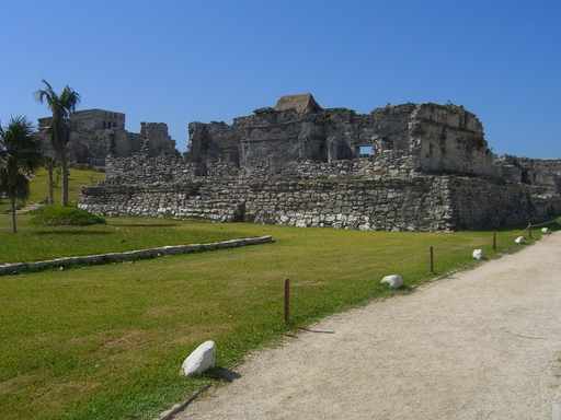 "the Palace" at Tulum, Q. Roo